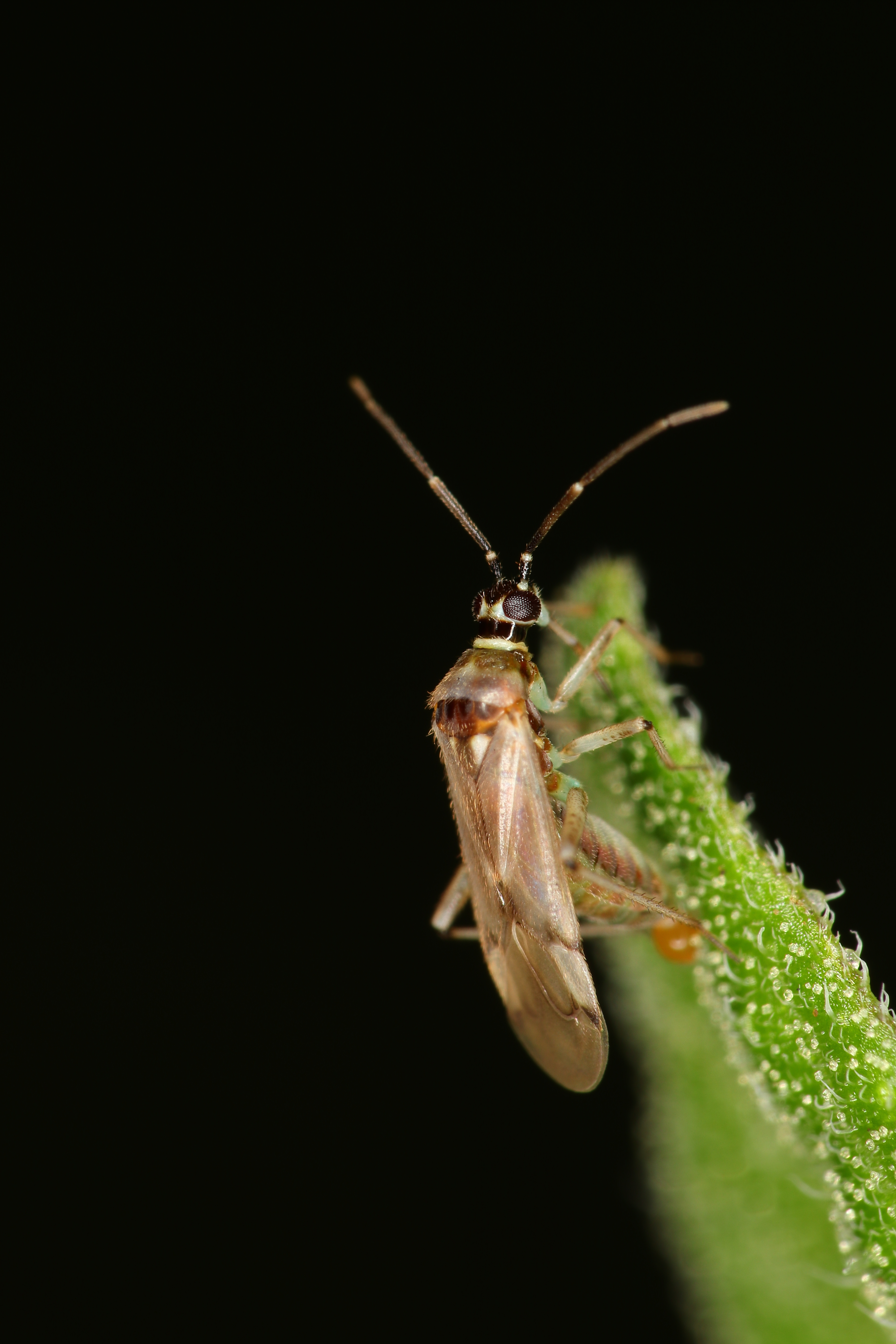 Picture of a Tomato Bug (Engytatus modestus) sitting on a tomato plant.